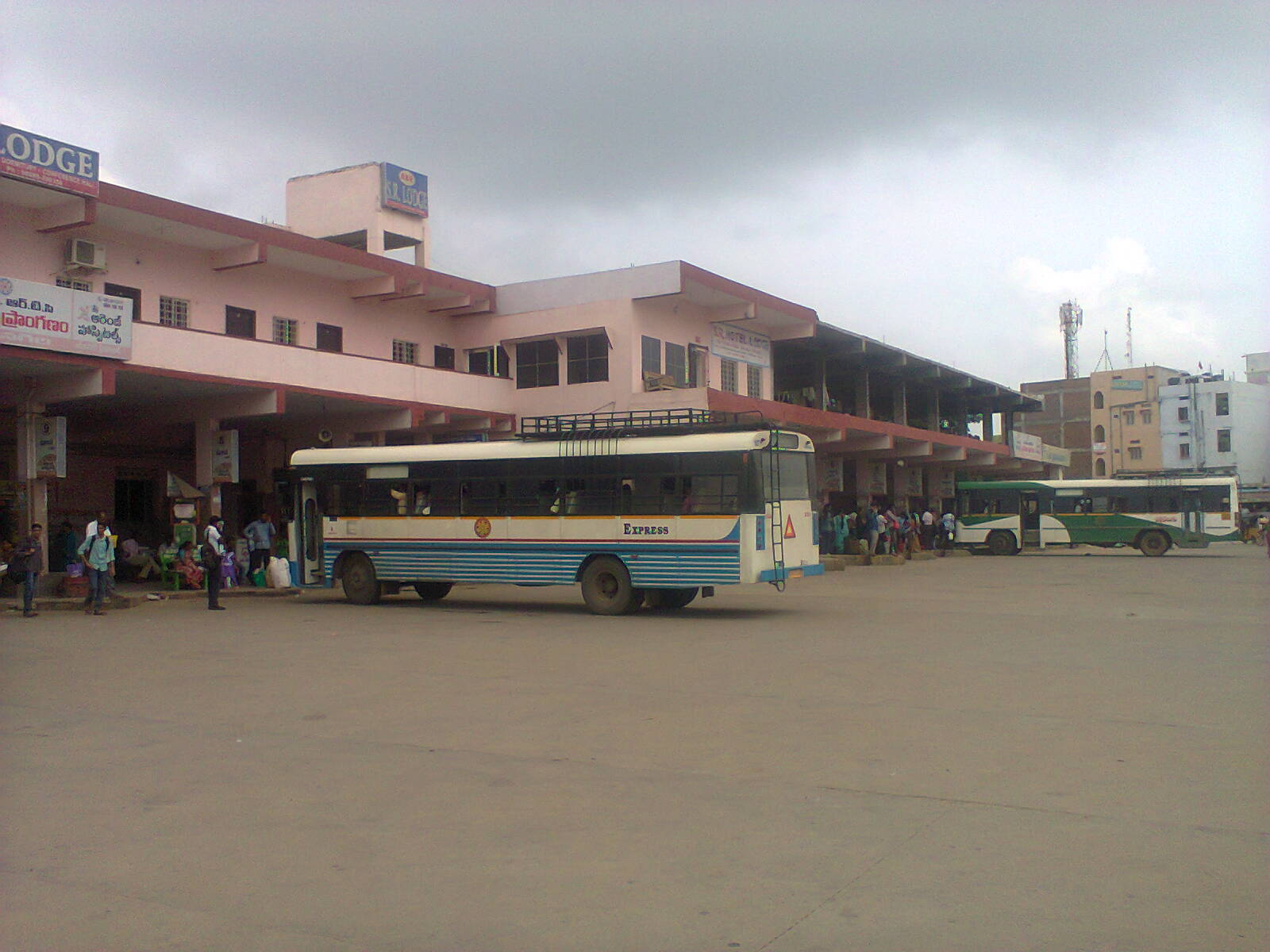 భువనగిరి బస్టాండ్